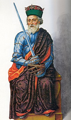 Depicted person: Alfonso X of Castile